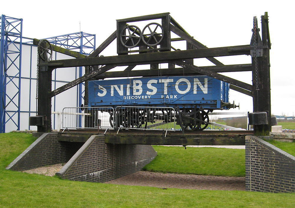 Leicester and Swannington Railway wooden lifting bridge, based on a design by Robert Stephenson, relocated from over the Grand Union Canal, Leicester, to outside the Snibston Discovery Park, Coalville, England.